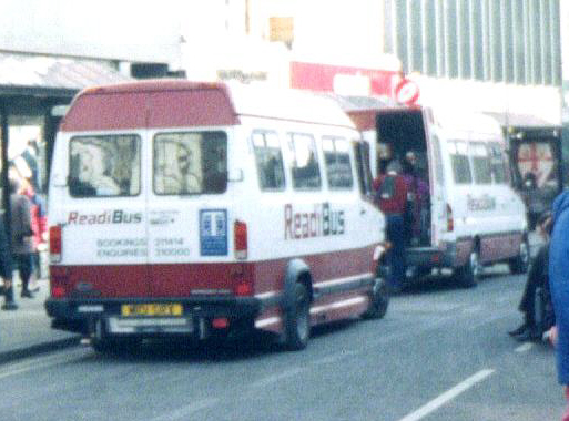 A minibus of ReadiBus, a mobility bus service in Reading, Berkshire.